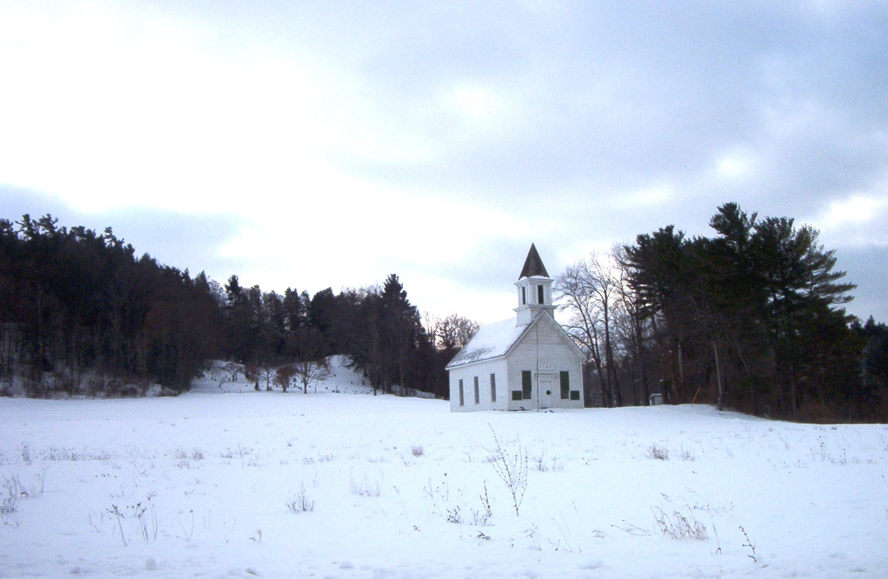 Indian Castle Church, near Danube, NY from afar